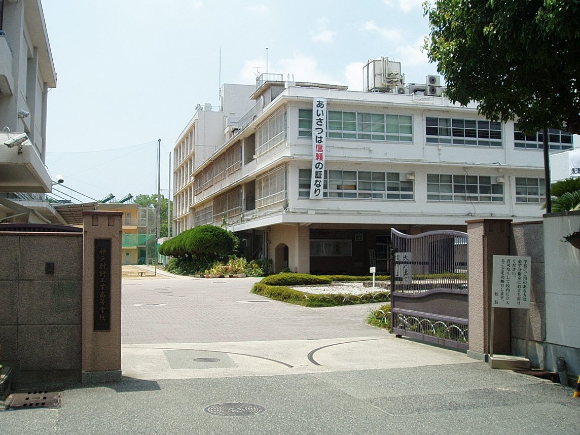 Entrance to Kobe Murano Technical High School located in Nagata-ku, Kobe, Hyogo, Japan.